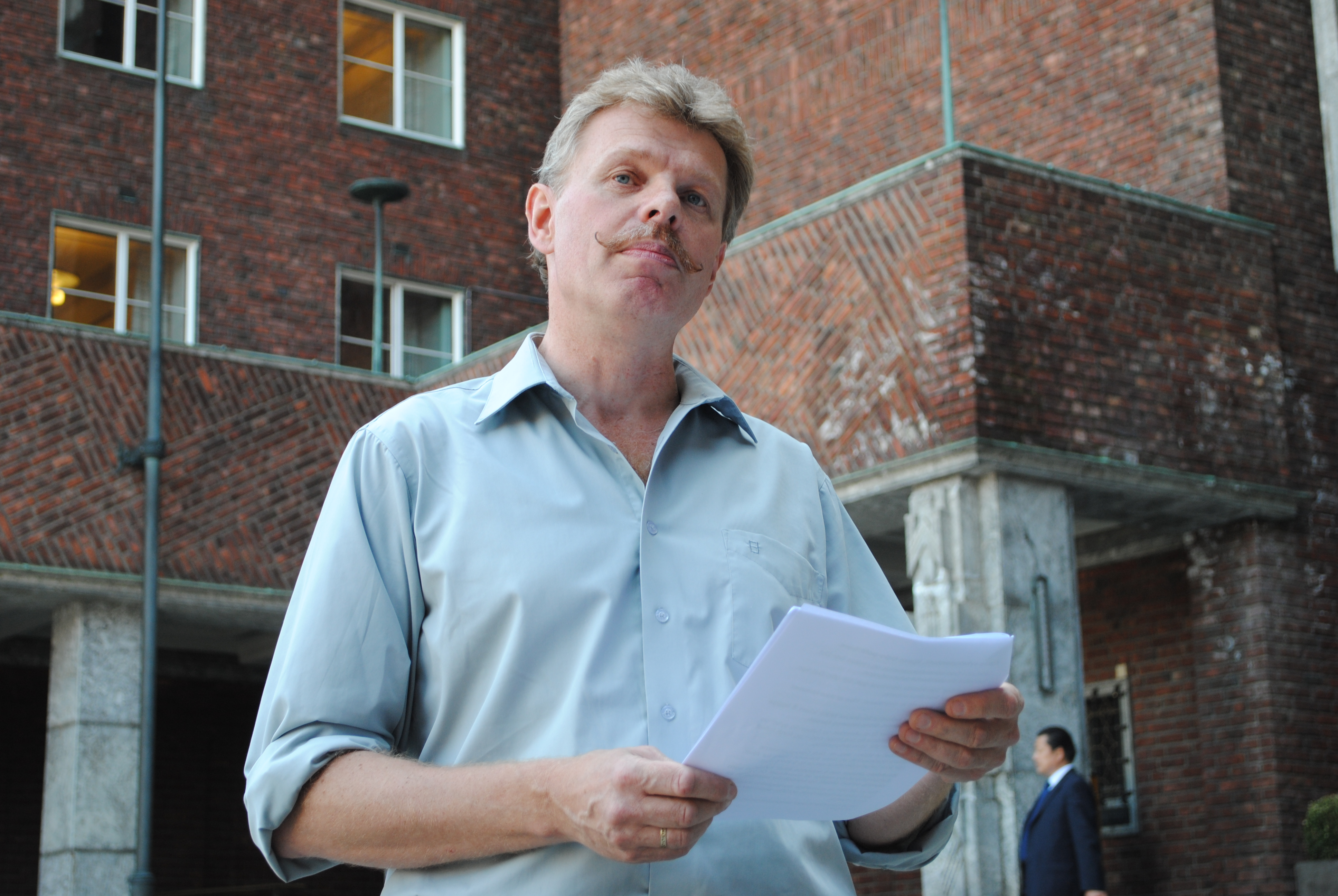 Norwegian activist Are Saastad speaking at a protest rally in front of the Oslo City Council.